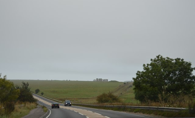 A303 near Stonehenge